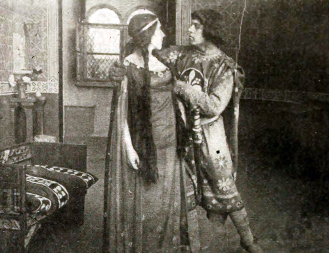 Illustration of an article in The Moving Picture World (june 2016) : scene from The Gorgona . is a 1915 silent Italian movie direct by Mario Caserini and product by the company Ambrosio Film,Turin